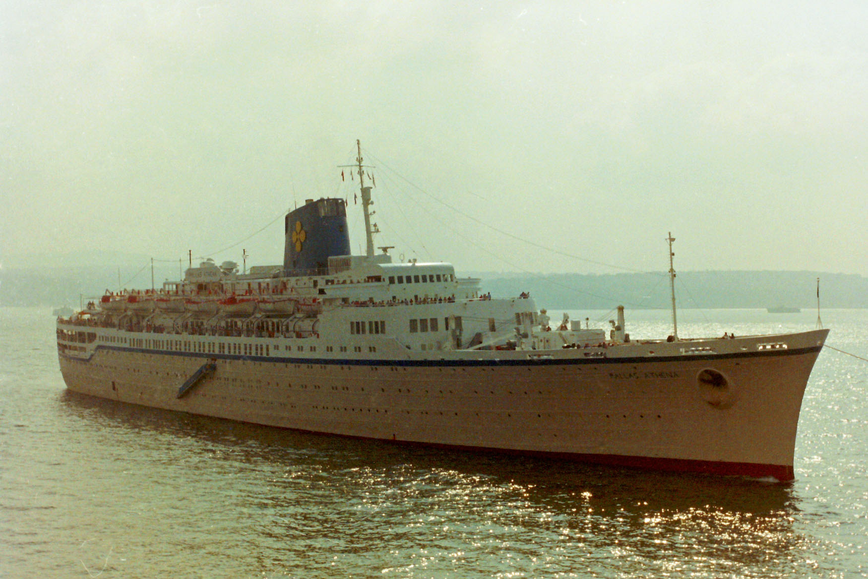 The cruise ship Pallas Athena arrives in Istanbul harbor on August 1, 1992.